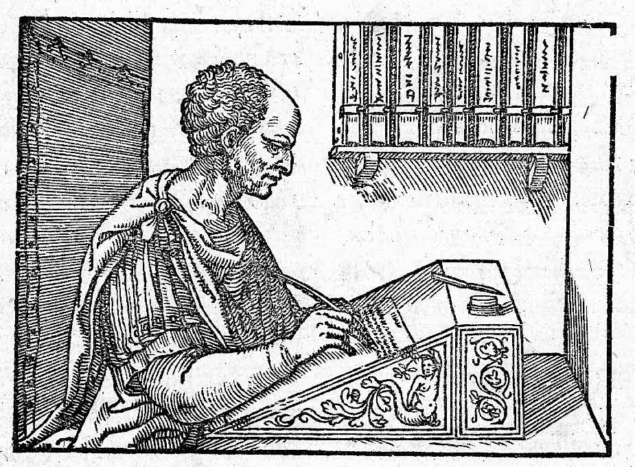 Woodcut showing Cicero writing his letters. This image is a detail from page 329 of Cicero, Epistulae ad familiares (“Letters to his friends”), from an early edition printed by Hieronymus Scotus (alias Girolamo Scoto) in 1547 at Venice (Venezia, Italy). On this page, book IX (nine) of the Epistulae begins.